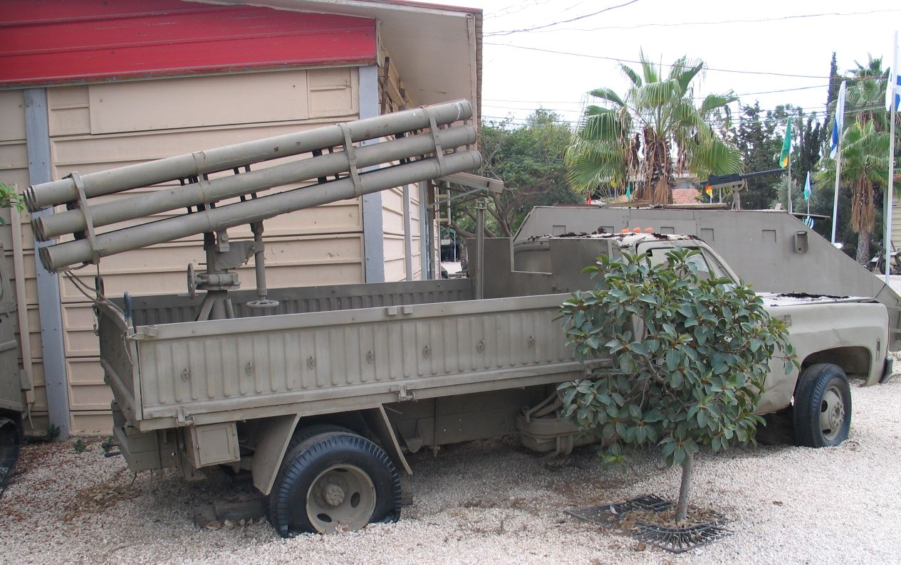 Description: 122 mm rocket launcher mounted on a GMC truck in Batey ha-Osef Museum, Tel-Aviv, Israel. Source: Photo by me, User:Bukvoed.